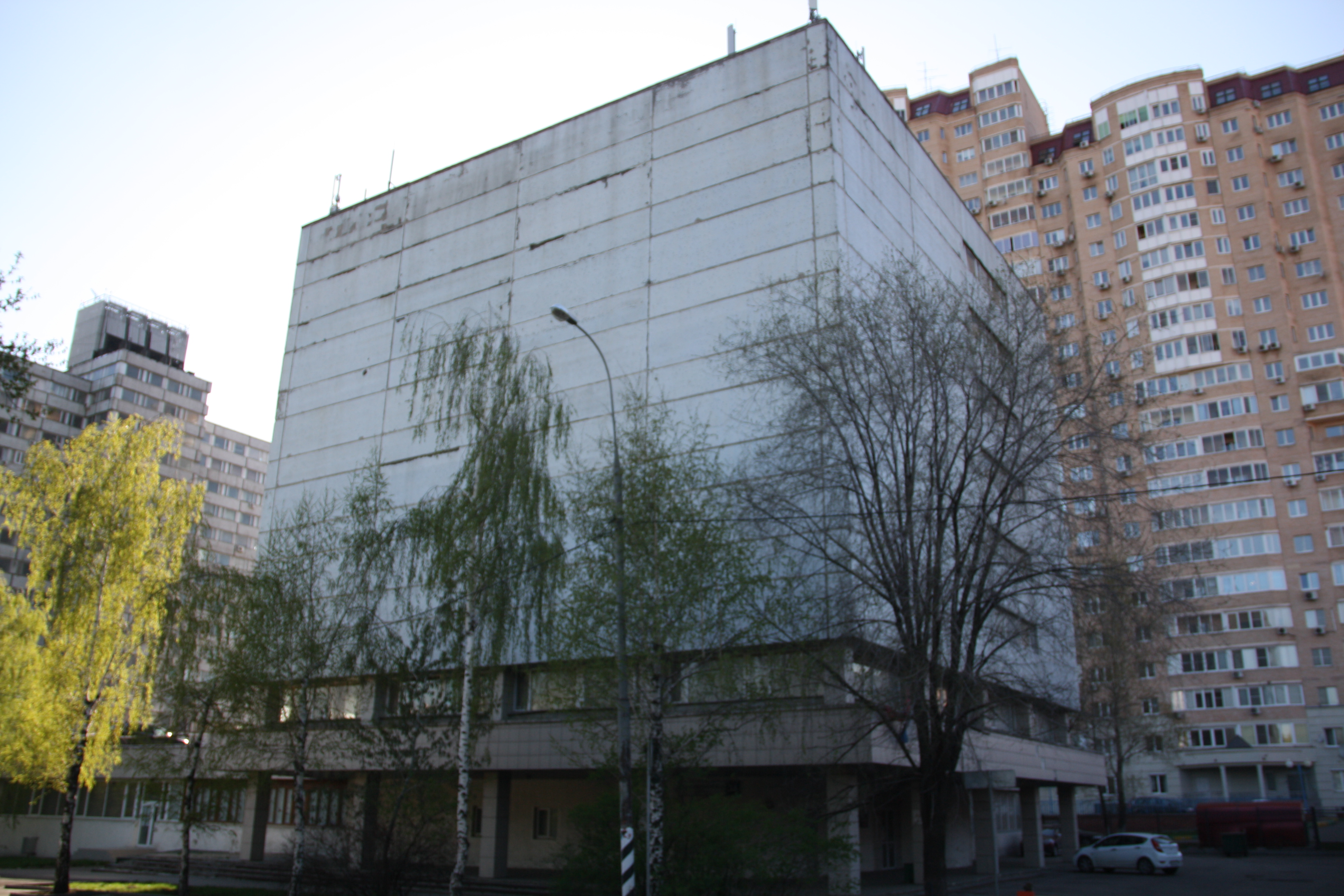 Archive RAS